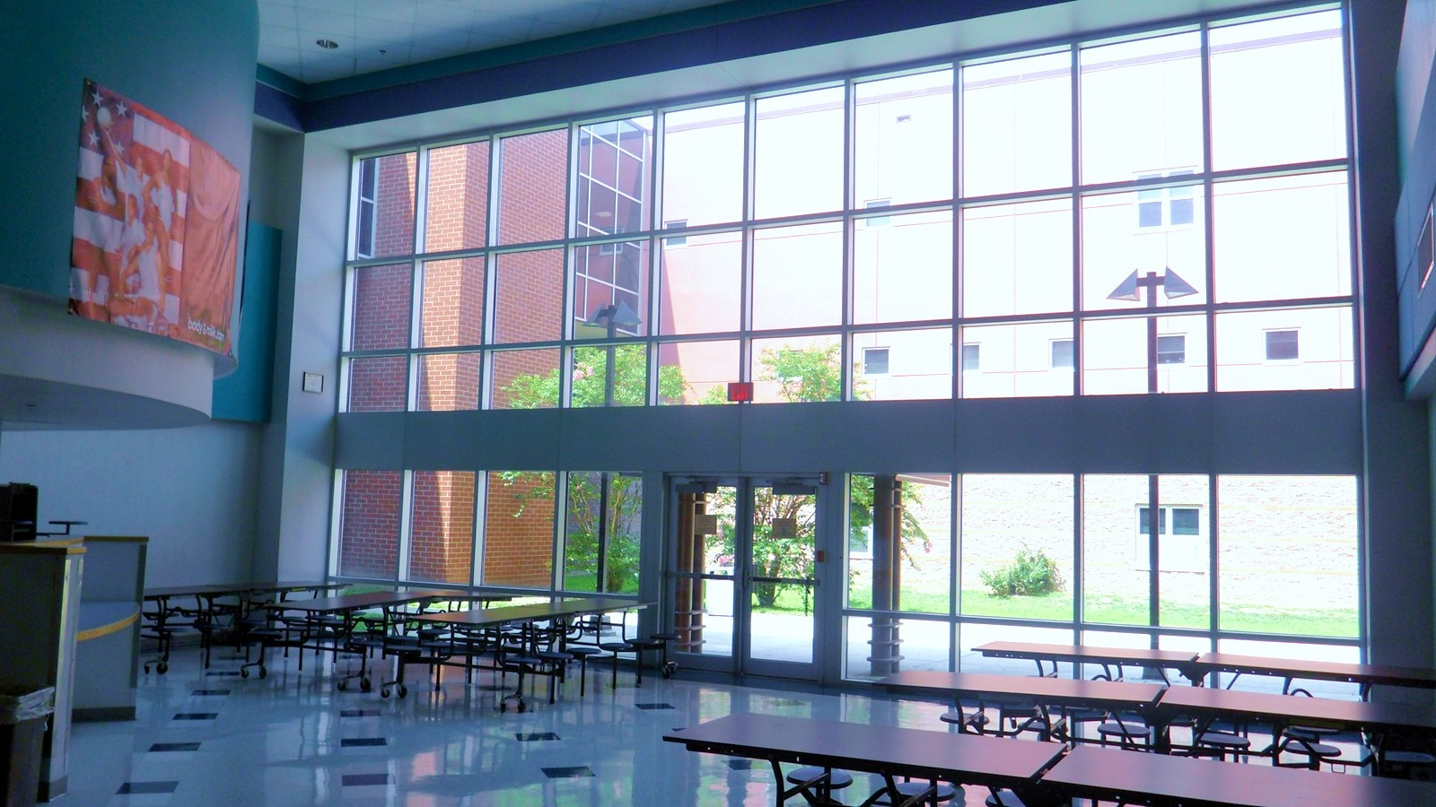 One of the three satellite cafeteria's or "commissary's" at Northwestern High School in Hyattsville, Maryland, USA.